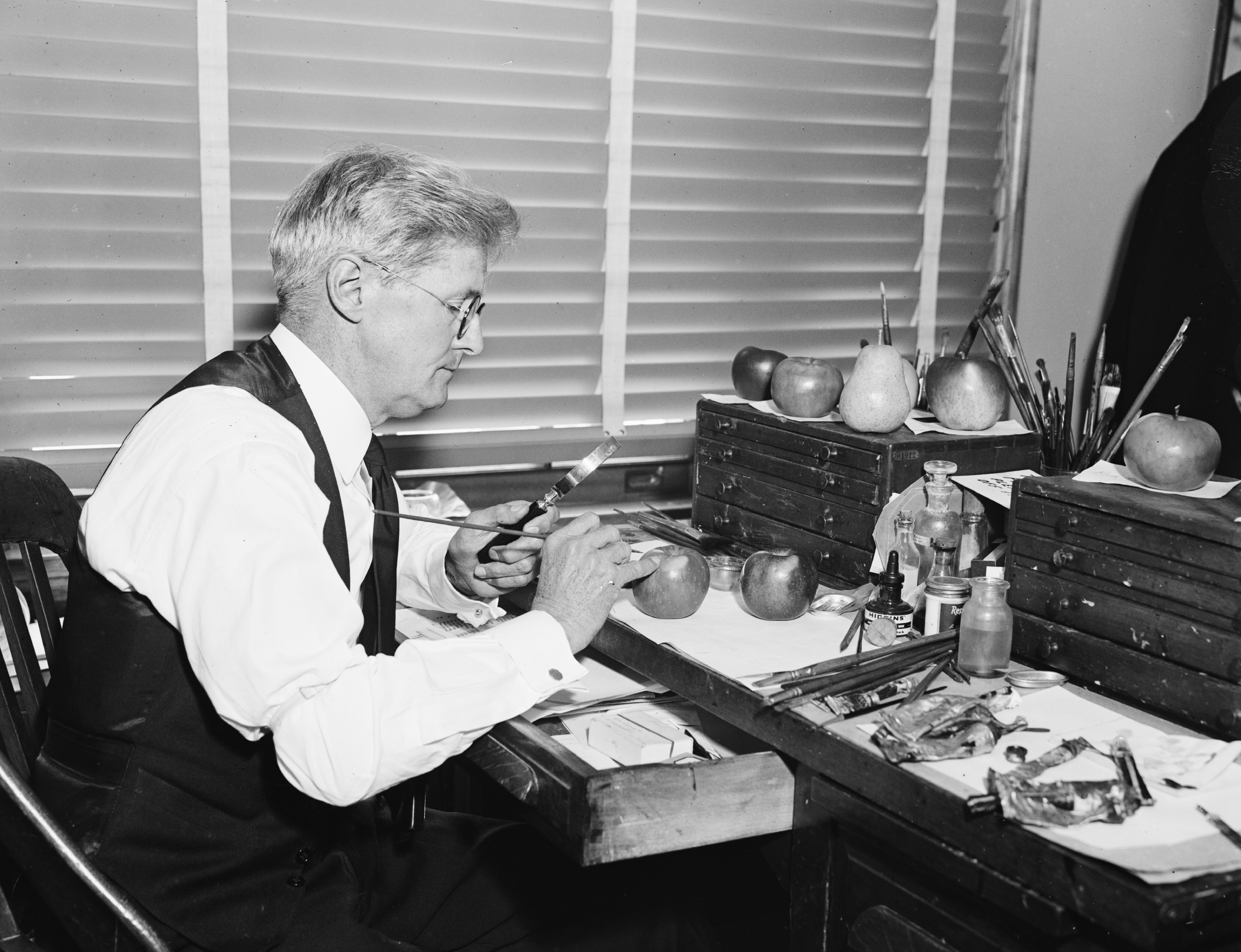 Royal Charles Steadman, a botanical artist for the U.S. Department of Agriculture, painting wax models of fruit in 1935.